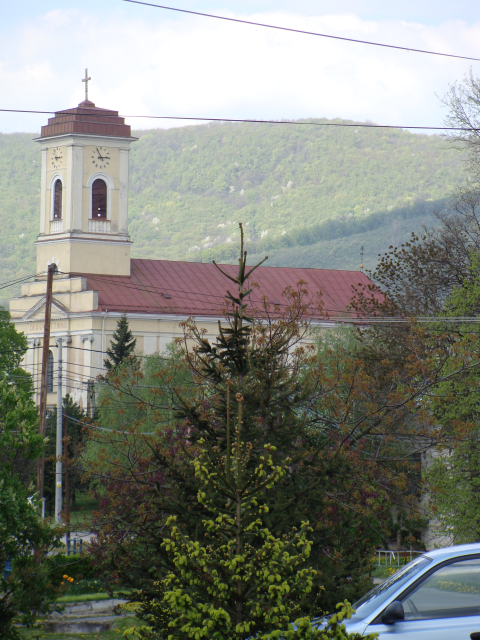 Church initiated to TRANSLATION OF THE VIRGIN MARY in Staré